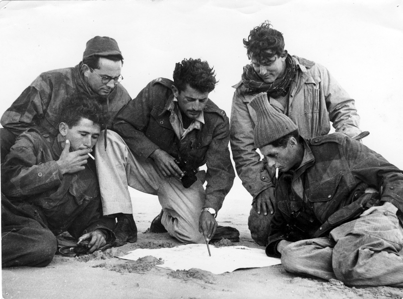 Operation Horev, January 1949)